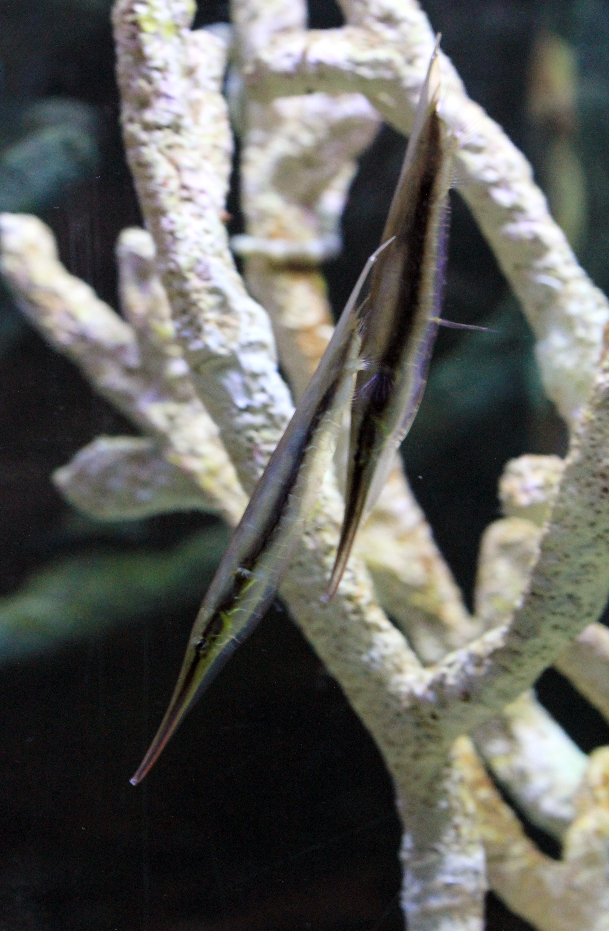 Fish Aeoliscus strigatus, (Aeoliscus strigatus) in Prague sea aquarium “Sea world”, Czech Republic